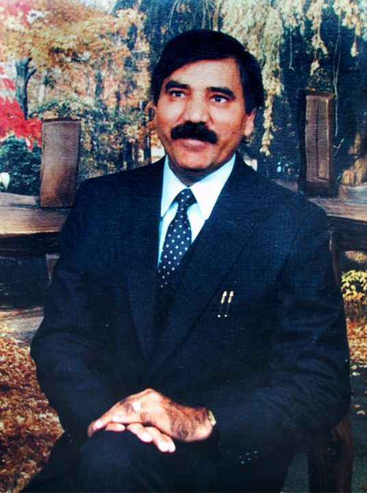 Dr. Mujaddid Ahmed Ijaz, 1983